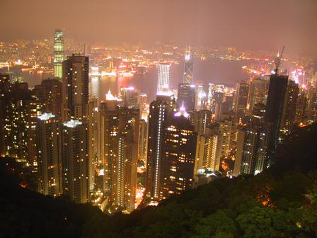 Hong Kong Peak at night category:Images of Hong Kong category:Victoria Harbour